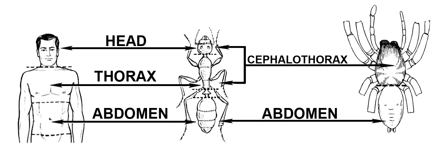 Comparison of human, insect and arachnid anatomy showing head, thorax, cephalothorax and abdomen Note: the spider's limbs doesn't have all parts